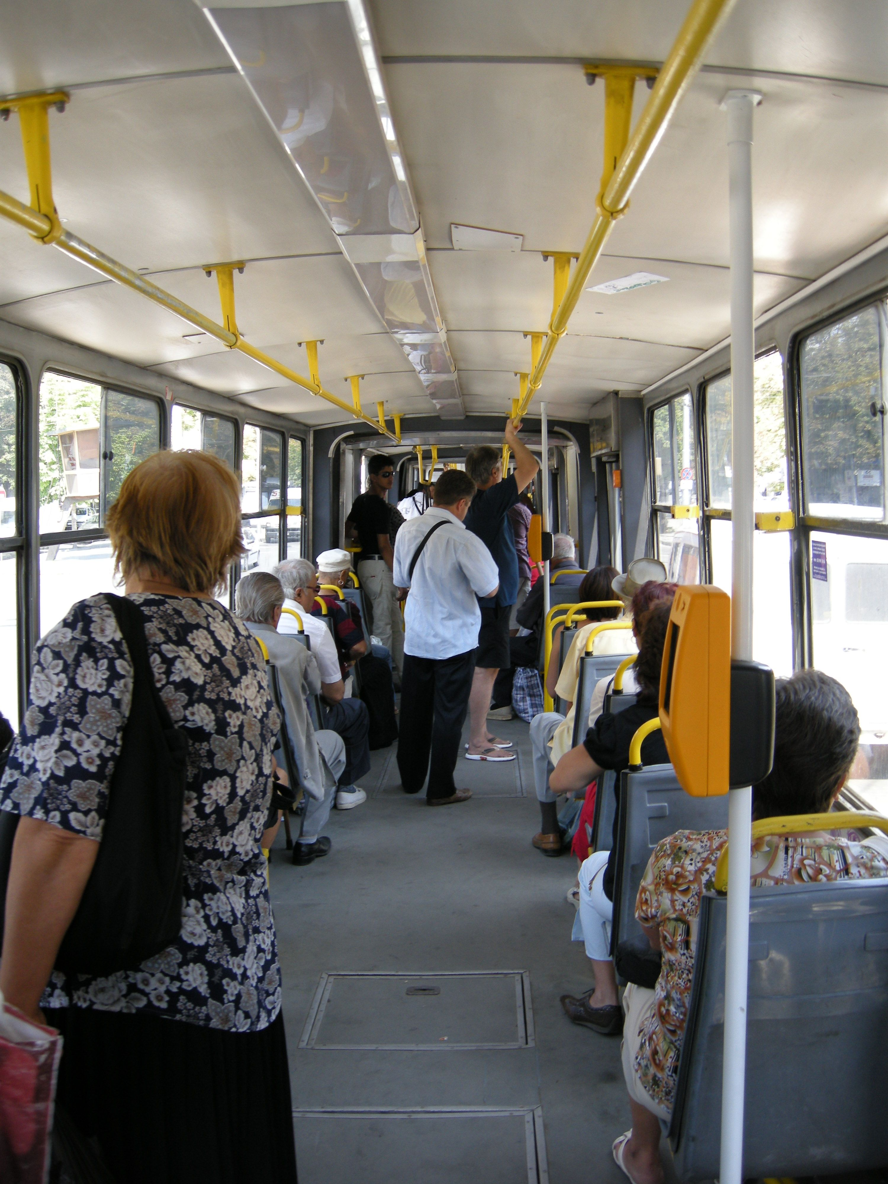 City traffic conductor in a tram in Sofia, Bulgaria